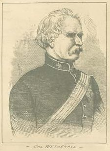 George Augustus Wetherall. Archives de Montreal